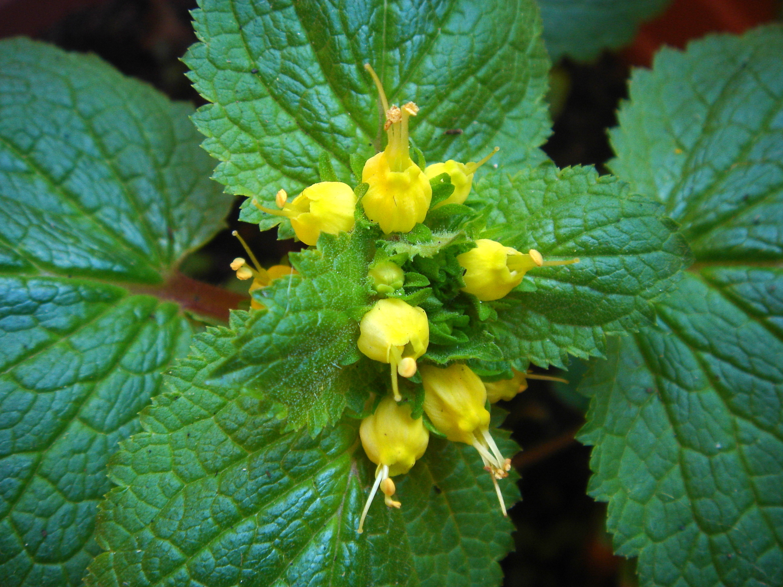 Scrophularia chrysantha